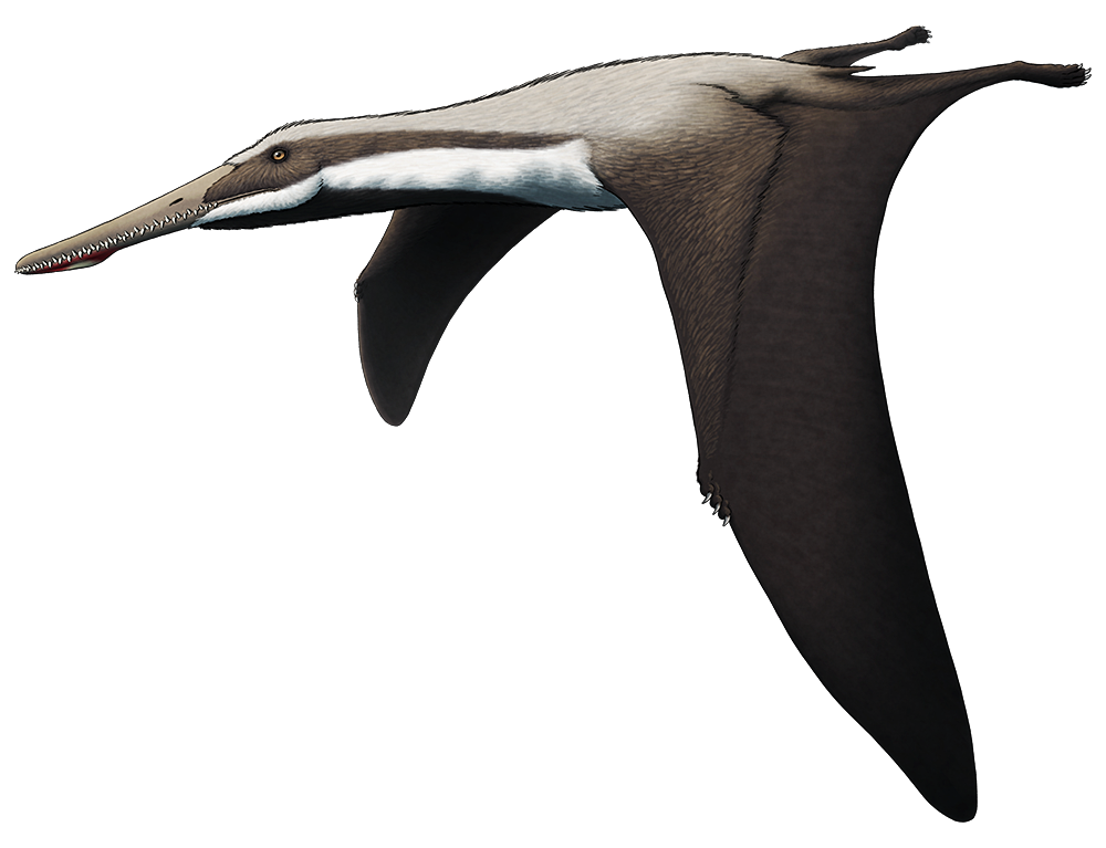 Lonchodectes sketches